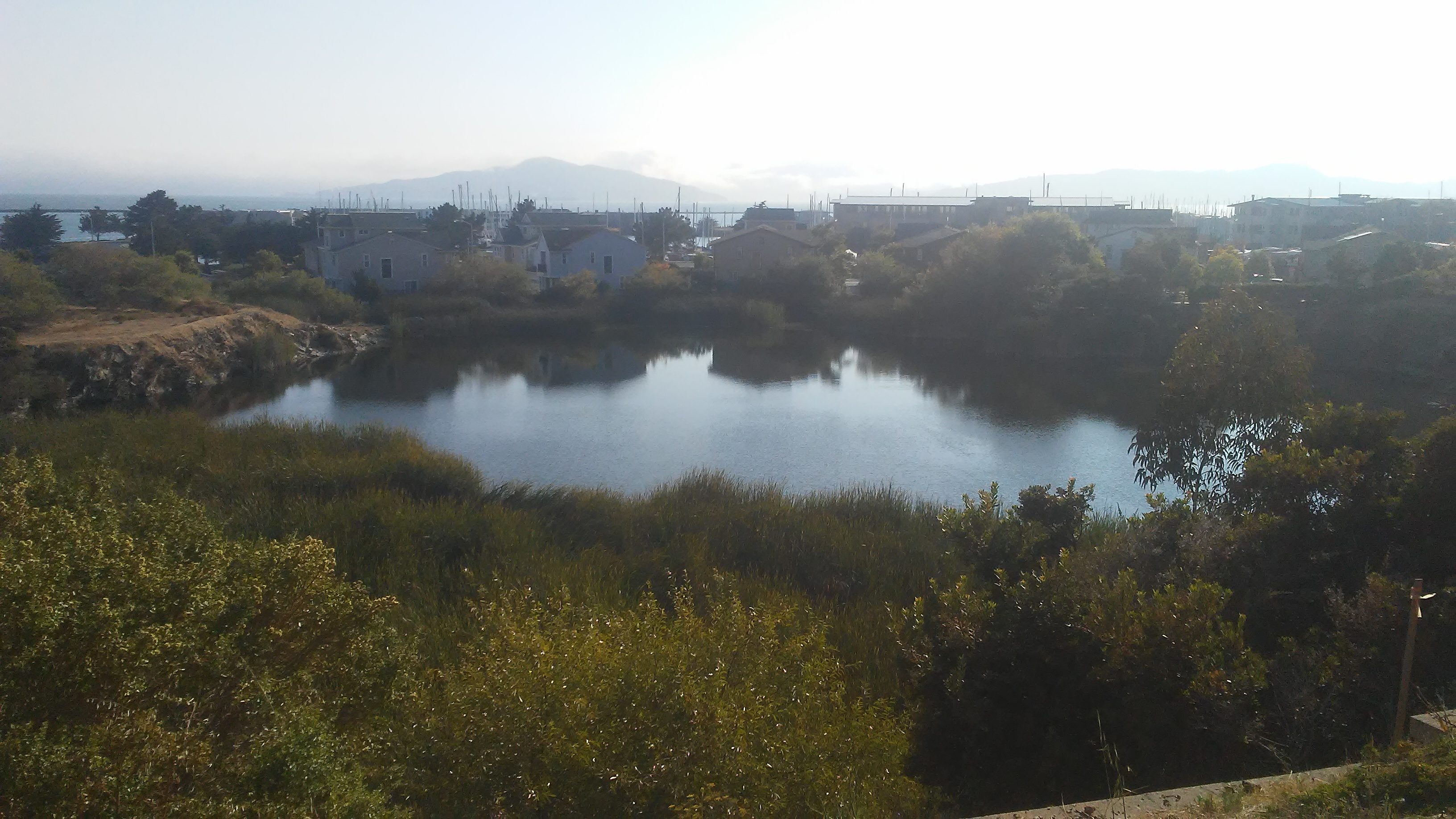 brickyard cove pond with angel island in the background